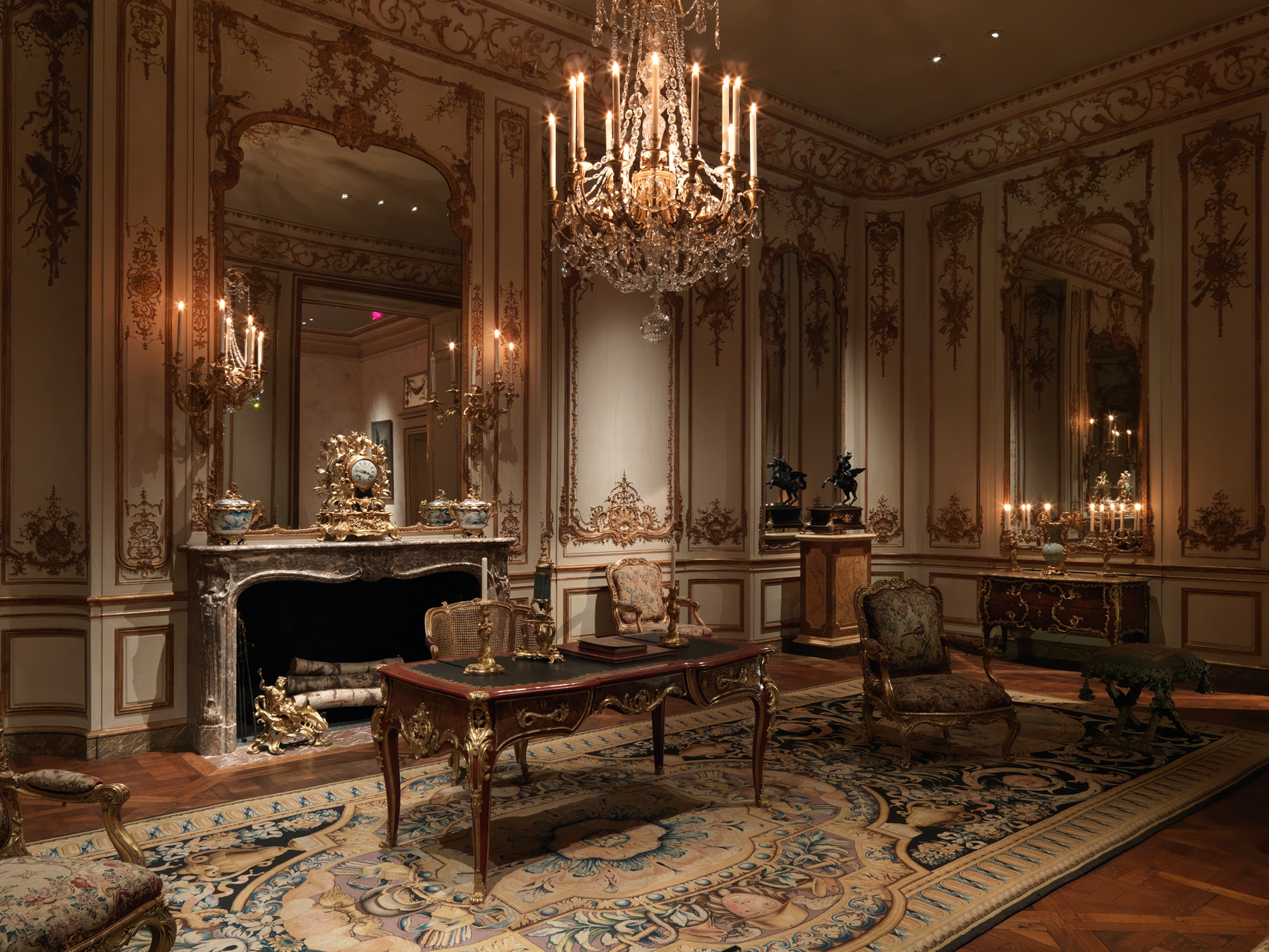 French, Paris; Period room; Woodwork